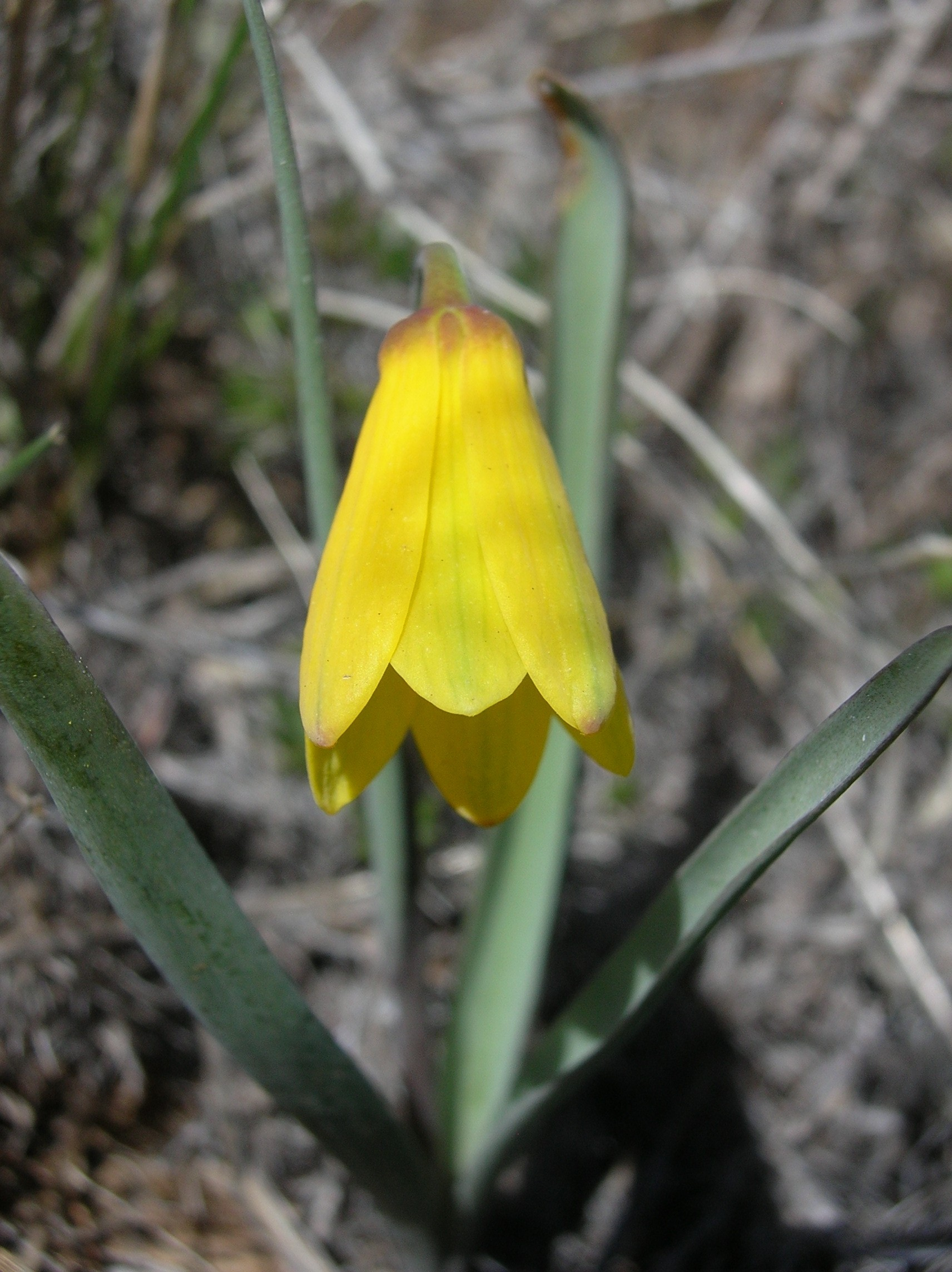 Fritillaria pudica — Yellow fritillary. In the Modoc National Forest, in the northeastern Great Basin region of California.